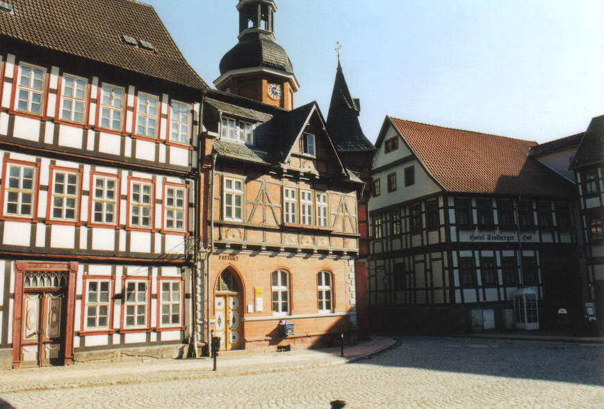 The old post office behind "Saigerturm" at Stolberg(Harz), Germany.